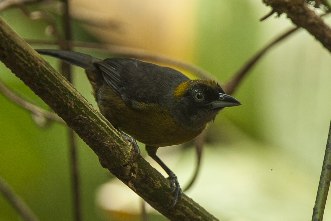 Dusky-faced Tanager - Panama_H8O9381